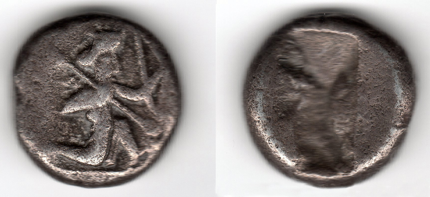 Achaemenid silver shekel showing a bearded melophore-dressed warrior-king kneeling on his right knee, holding a bow and a lance. Reverse side shows just a formless depression. This coin was alledgedly made in Sardis, provincial capital of Lydia, a satrapy of the Achemenid empire (Lydia was on the territory of present-day Turkey), between 500 and 450 BCE, so, during or soon after the reign of Darius I the Great. As the crown cannot be seen correctly and no inscription is seen, the king can't be identified with certainty, although the 4 crenellations of the tiara may suggest Artaxerxes II.